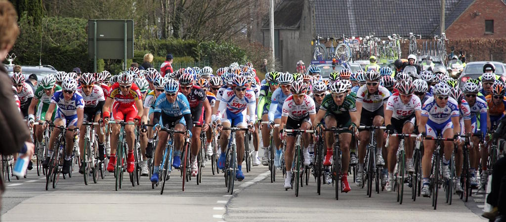 The bunch, E3 Prijs 2008